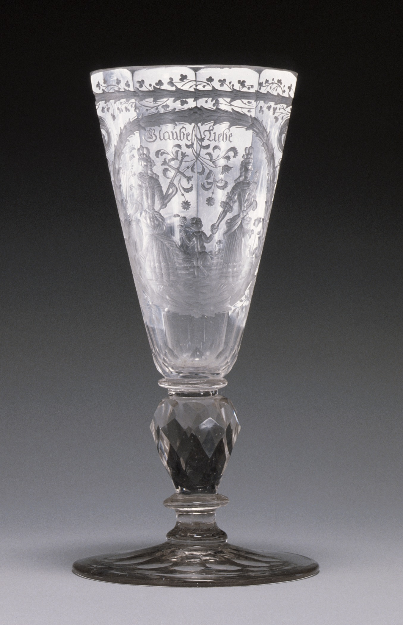 Silesia, Riesengebirge, circa 1700-1710 Furnishings; Serviceware Glass Height: 7 in. (17.78 cm); Diameter: 3 7/16 in. (8.73 cm) Gift of Varya and Hans Cohn (M.82.124.39) Decorative Arts and Design